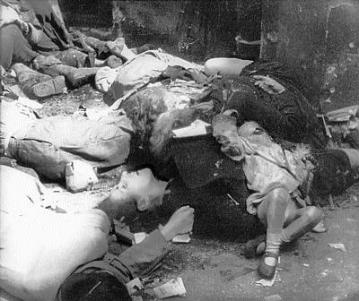 Photo depicting Polish civilians murdered by German SS forces in Warsaw Uprising, captured from a film by insurgent documentation cell. According to Piotr Gursztyn it was taken at the backyard of the tenement house at 111 Marszałkowska Street where SS unit executed around 30–44 Polish men, women and children (2 or 3 August 1944). It's often incorrectly described as photo depicting victims of Wola massacre